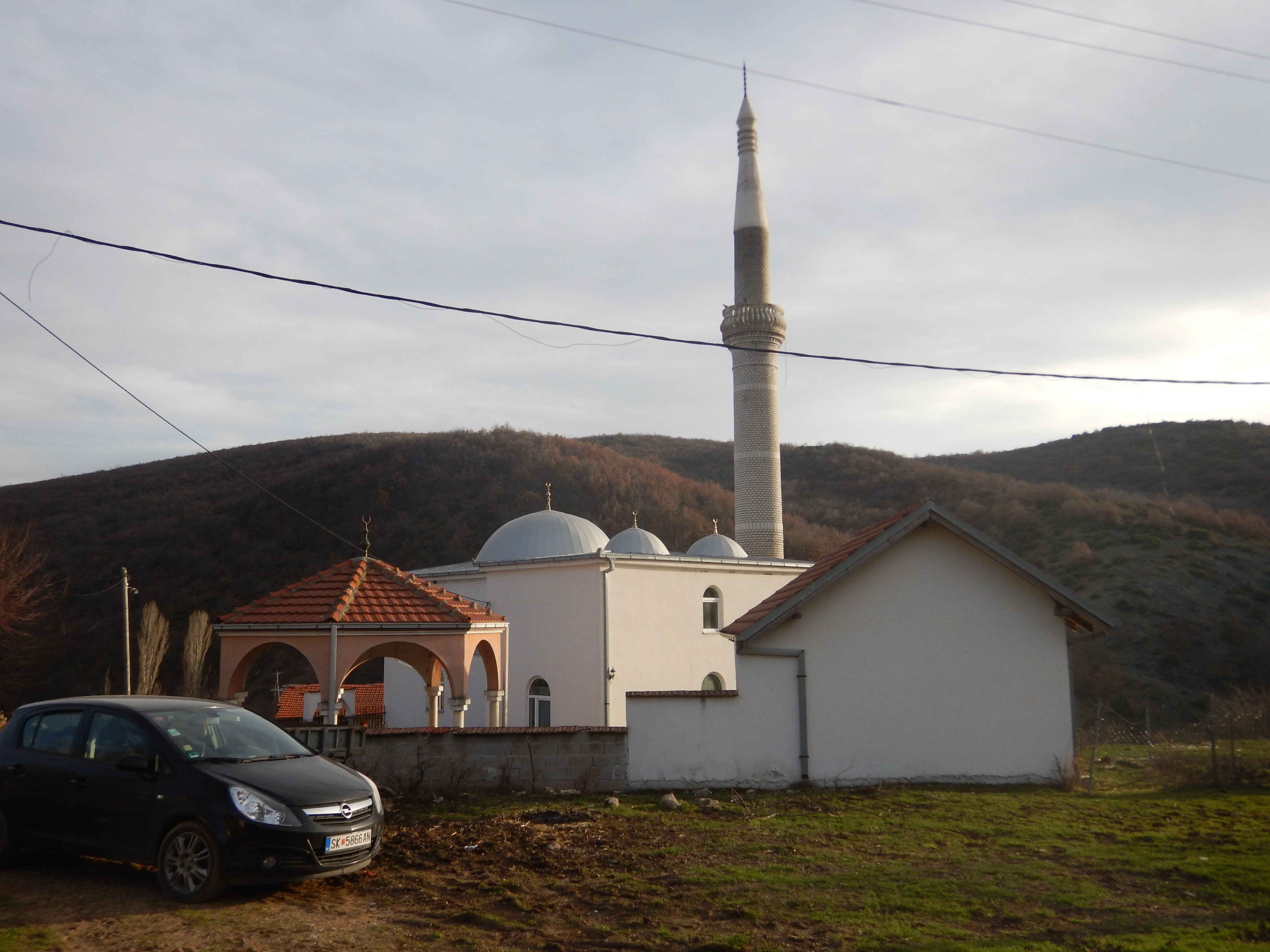 Gračani, mosque in the village